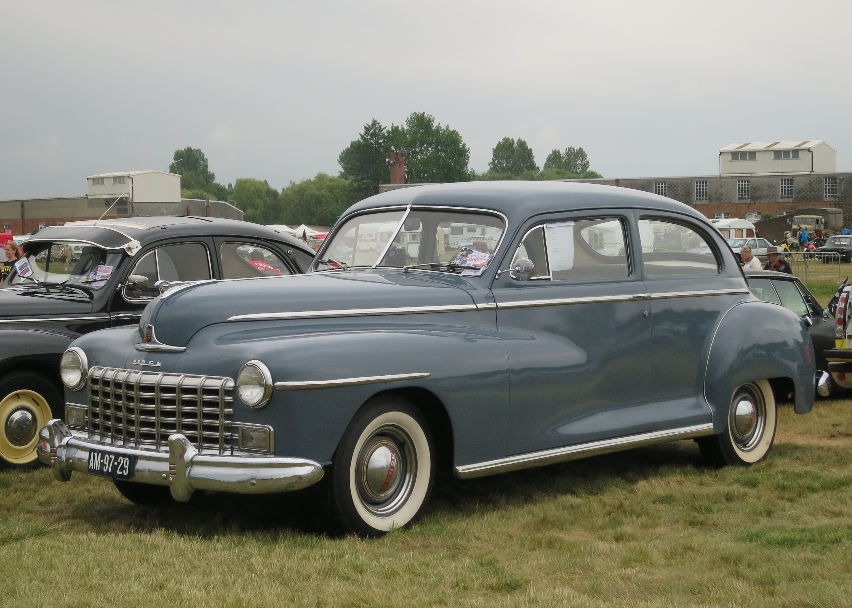 Dodge Deluxe 2-door sedan (1949 D24) photographed in Belgium (2015) registered in the Netherlands